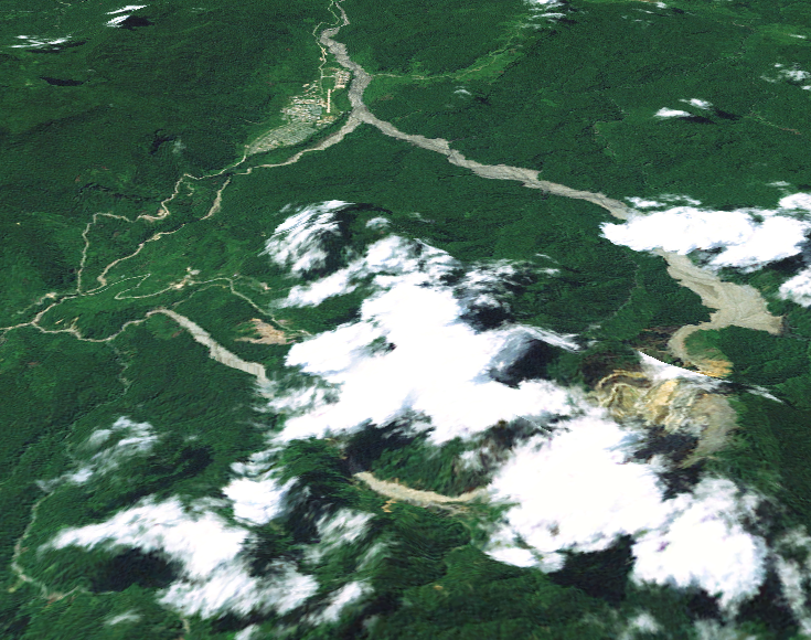 NASA World Wind image of Ok Tedi mine